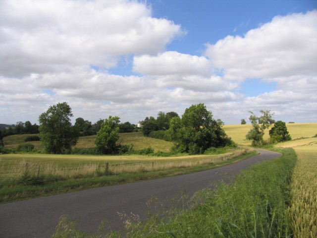 Frisby. Looking along Gaulby Road towards the hamlet of Frisby.